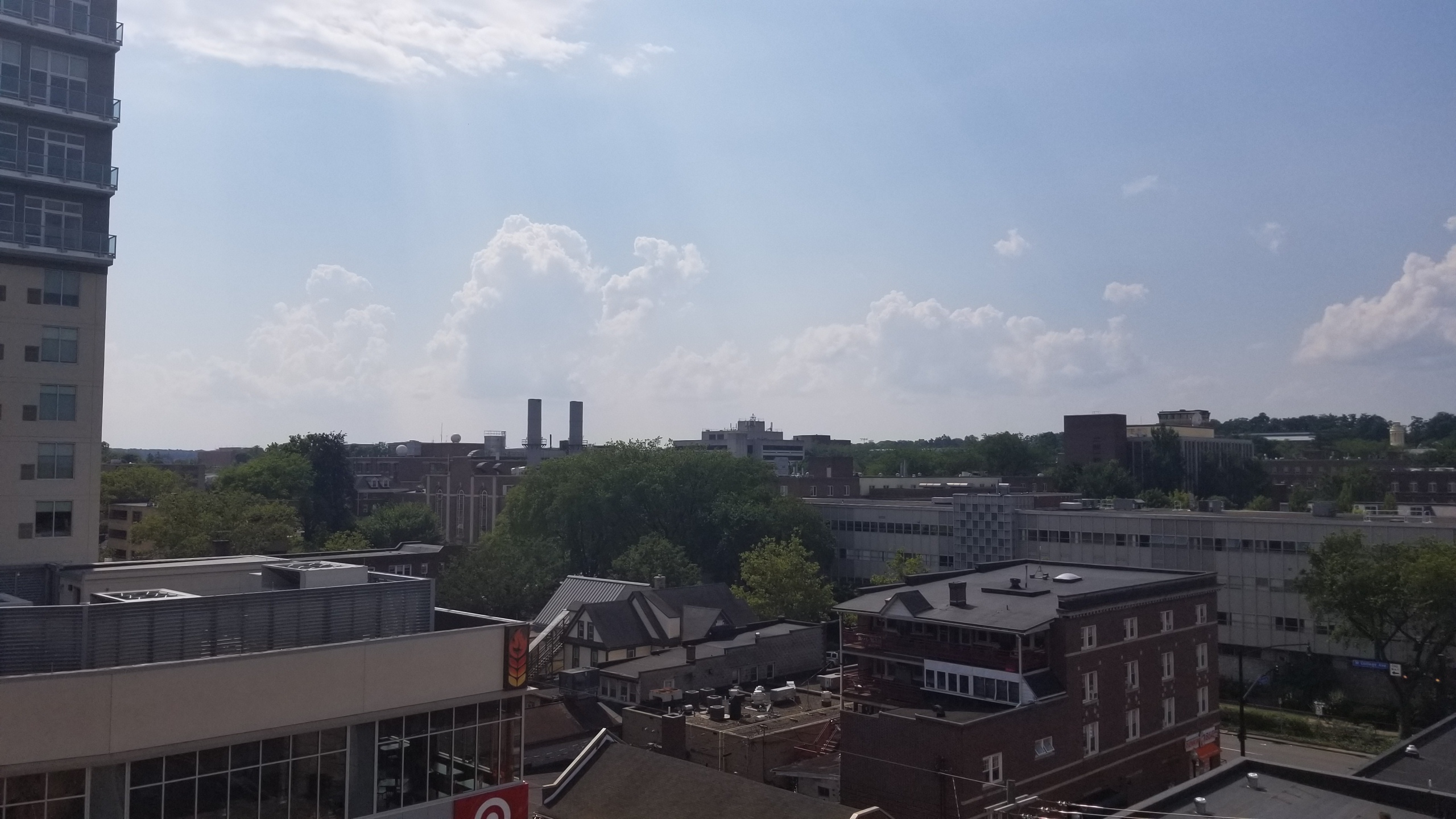 Picture taken from the Fraser Parking garage looking towards College Av.